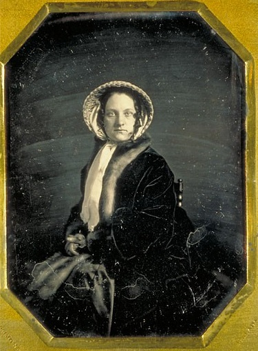 Daguerreotype of English actress Jean Margaret Davenport Lander (1829-1903). TC-22, Harvard Theatre Collection, Harvard University